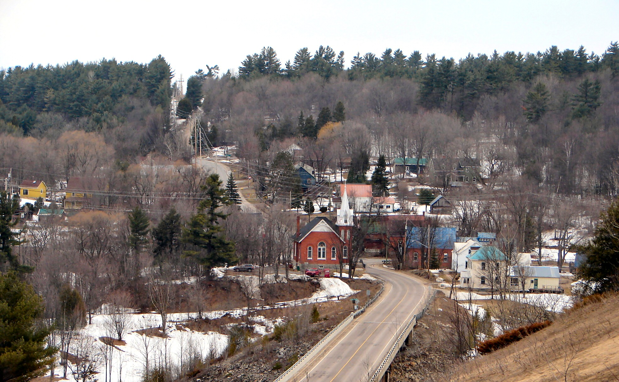 Burnstown, Renfrew County, Ontario, Canada